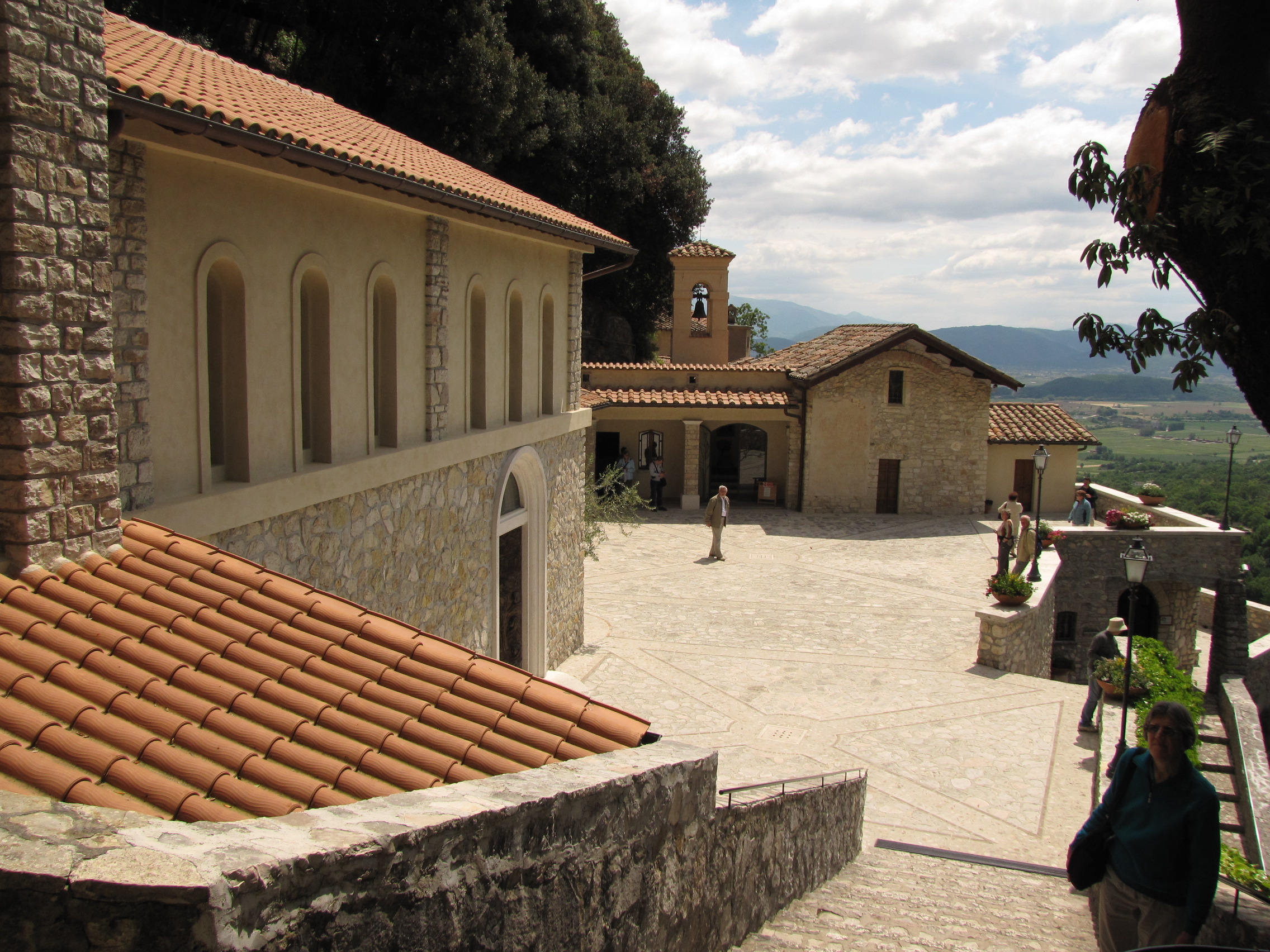 Franciscan sanctuary of Greccio (Province of Rieti, Lazio, Italy)